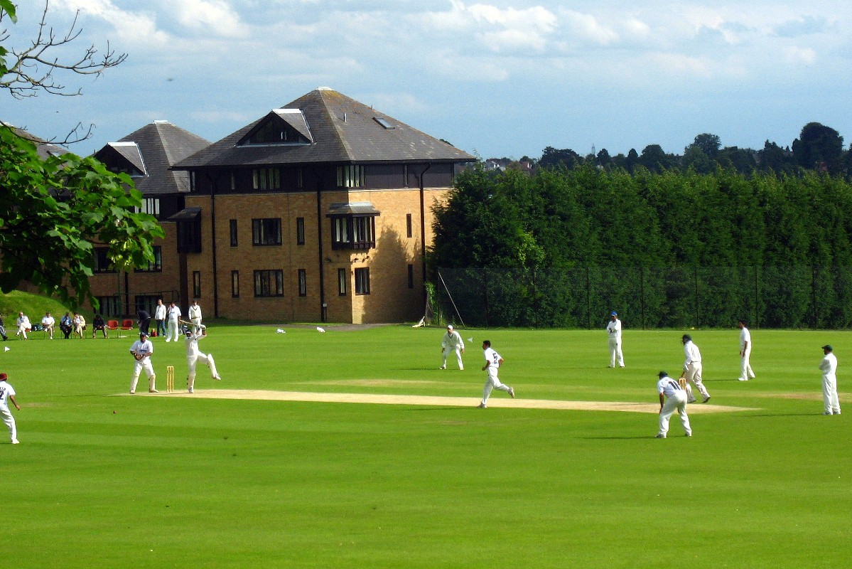 The sports ground of Jesus College, Oxford